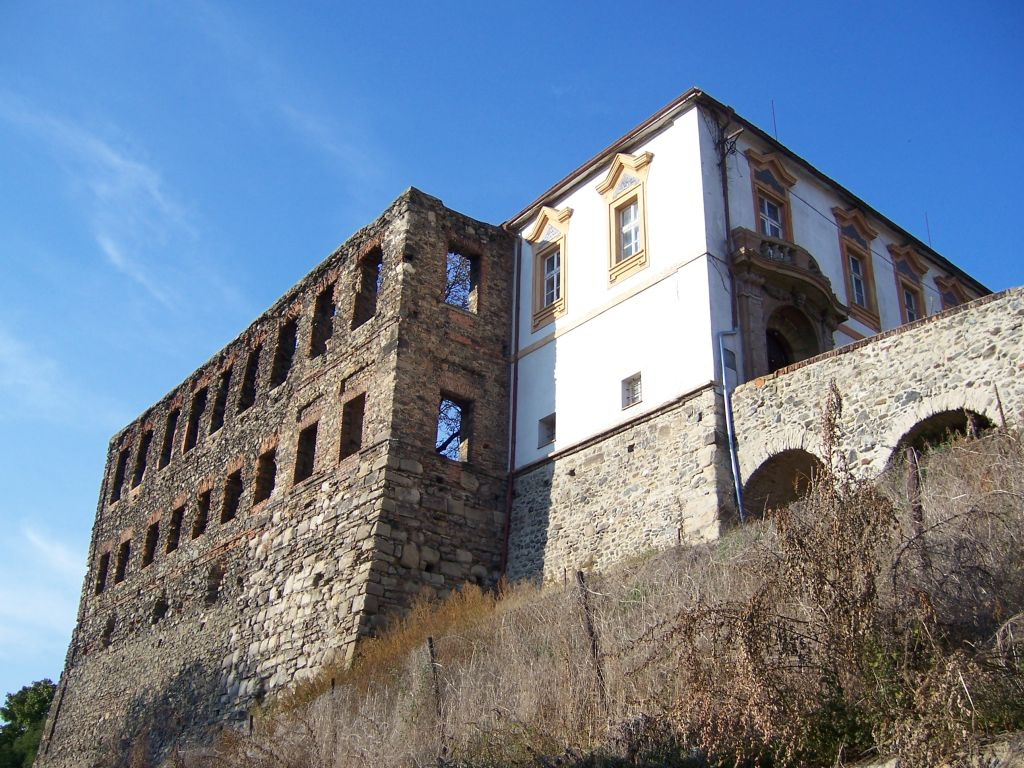 Chvatěruby, ruins and castle